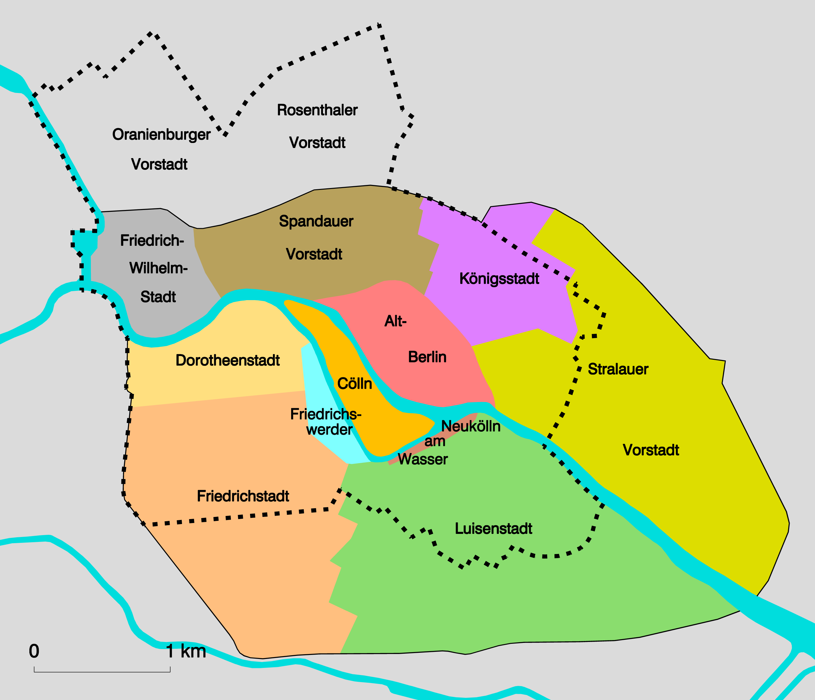 map of Berlin before 1920